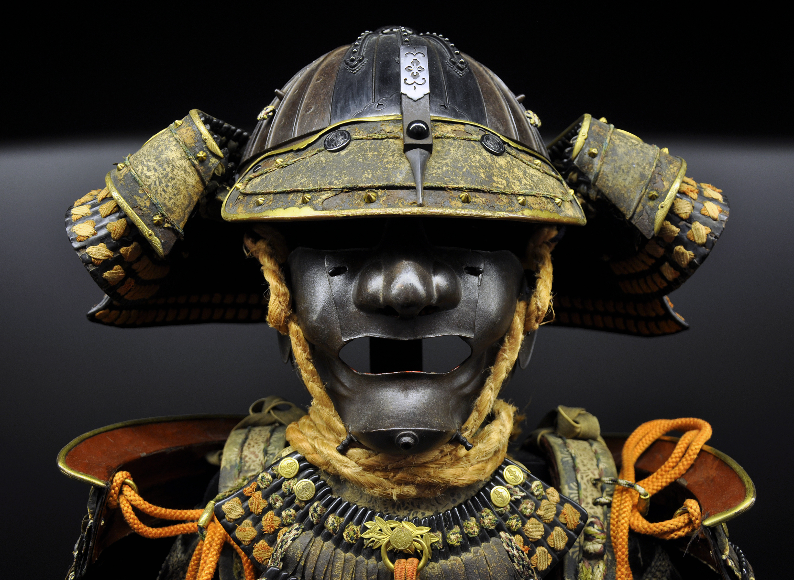 Helmet, about 1550, and half-face mask ( menpo ), Japan . Ann and Gabriel Barbier-Mueller Museum, Dallas (Texas) ; the photograph was taken during an exhibition in the Musée des Arts Premiers in Paris.